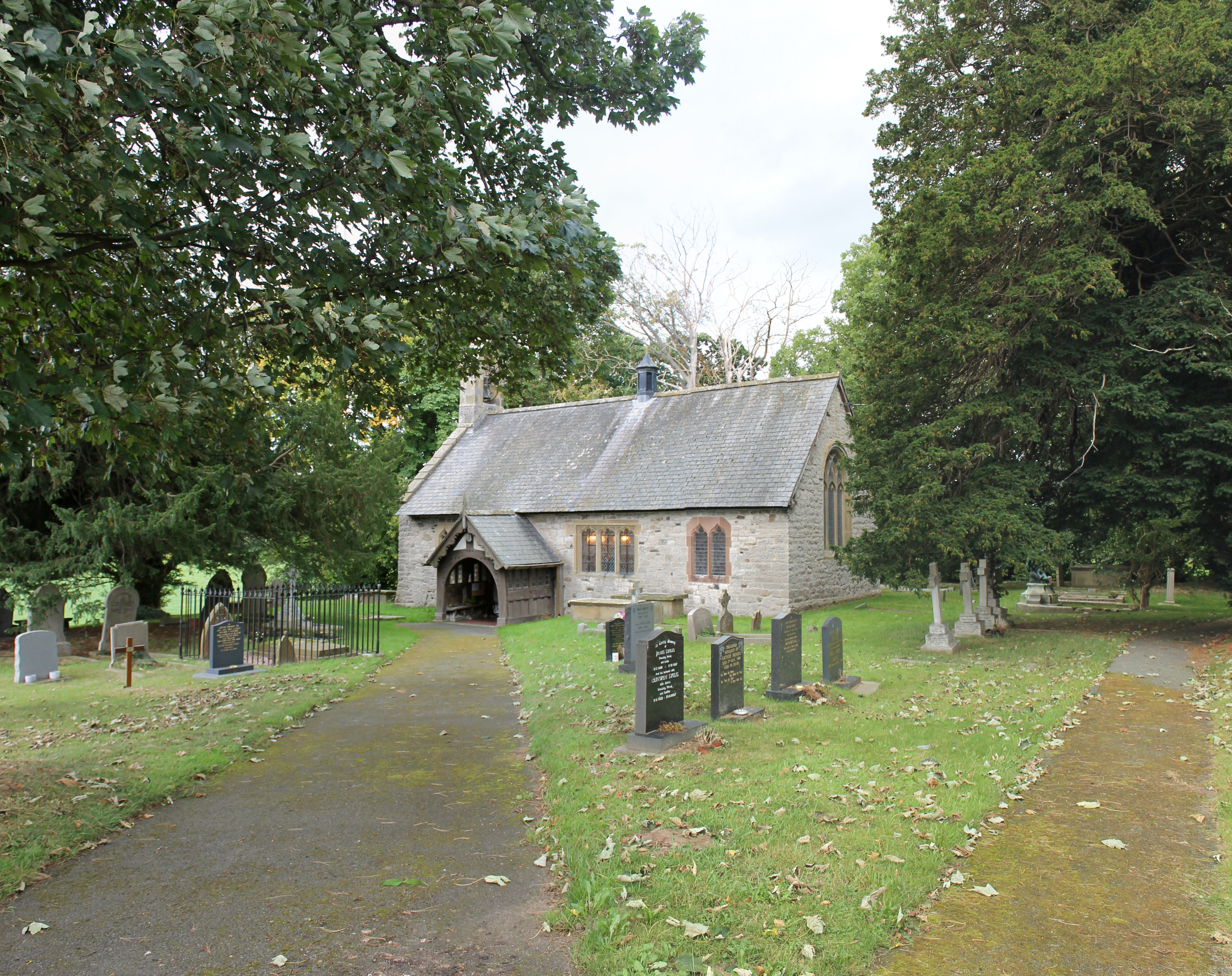 St Hychan's Church, Rhewl, near Ruthin, Denbighshire; first mentioned in 1254. Grade II*. Date Listed: 19 July 1966. Cadw Building ID: 787.